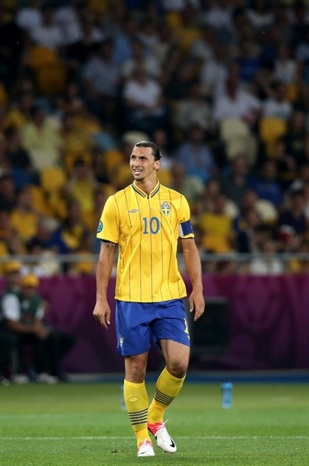 Zlatan Ibrahimović at the Euro 2012 match against France